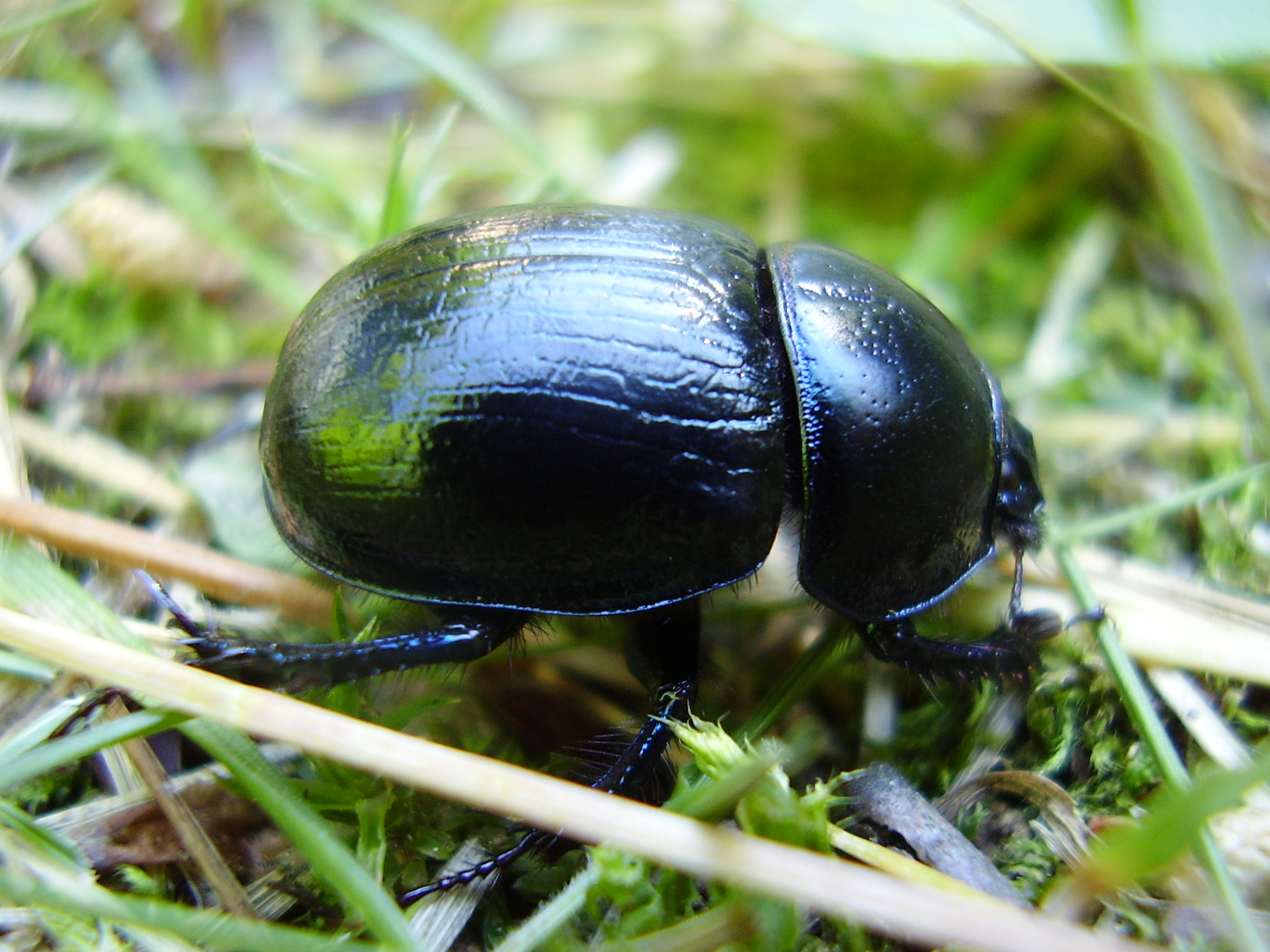 Anoplotrupes stercorosus Photo taken by Käyttäjä:kompak (4th of July 2005)